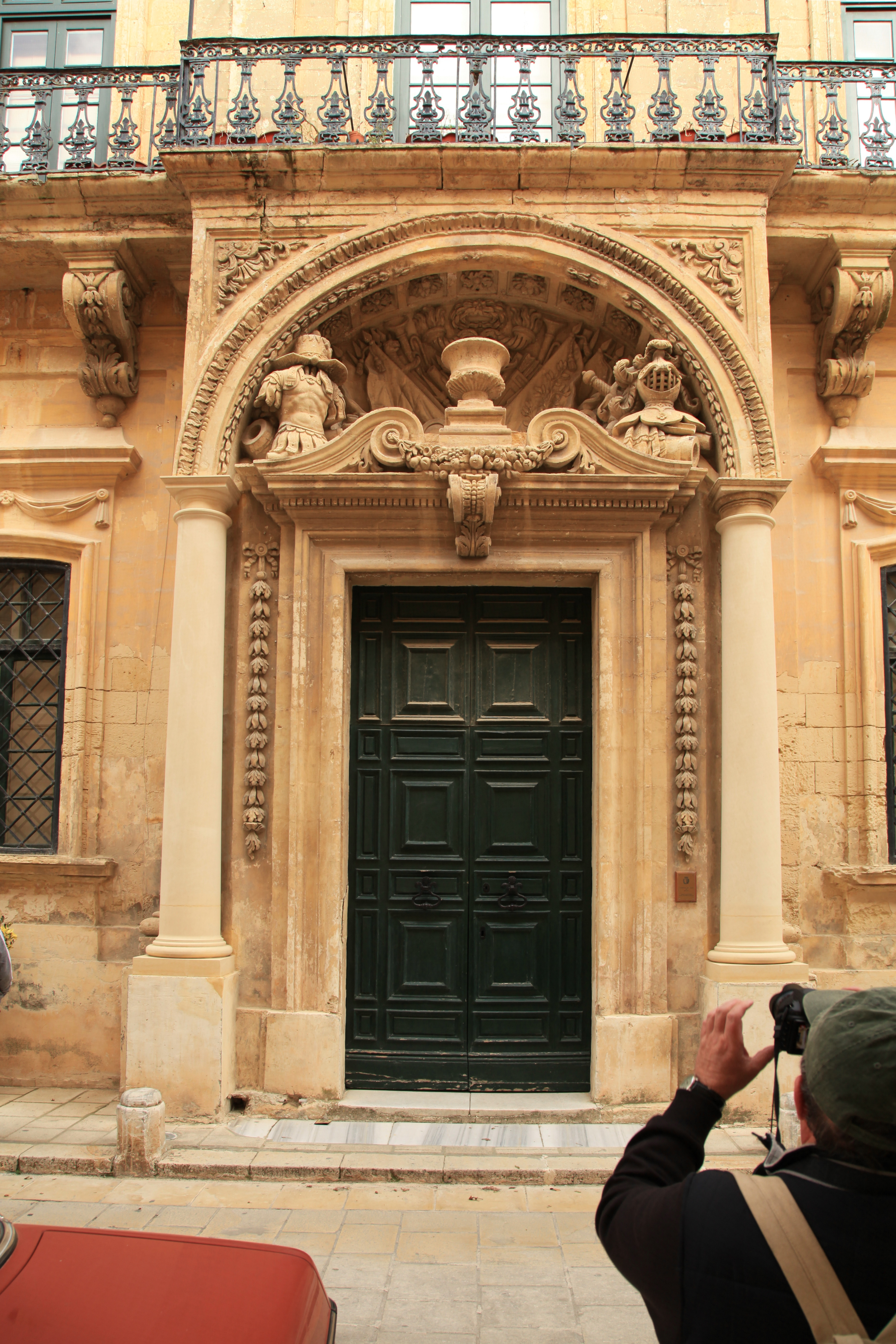 Banka Ġuratali, National Archives, Triq Villegaignon in Mdina, Malta